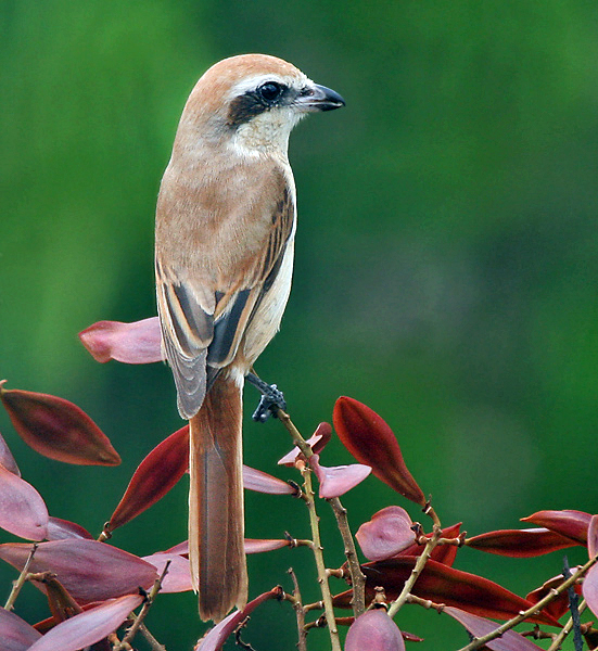 Brown Shrike ((Lanius cristatus)) in Kolkata, West Bengal, India.